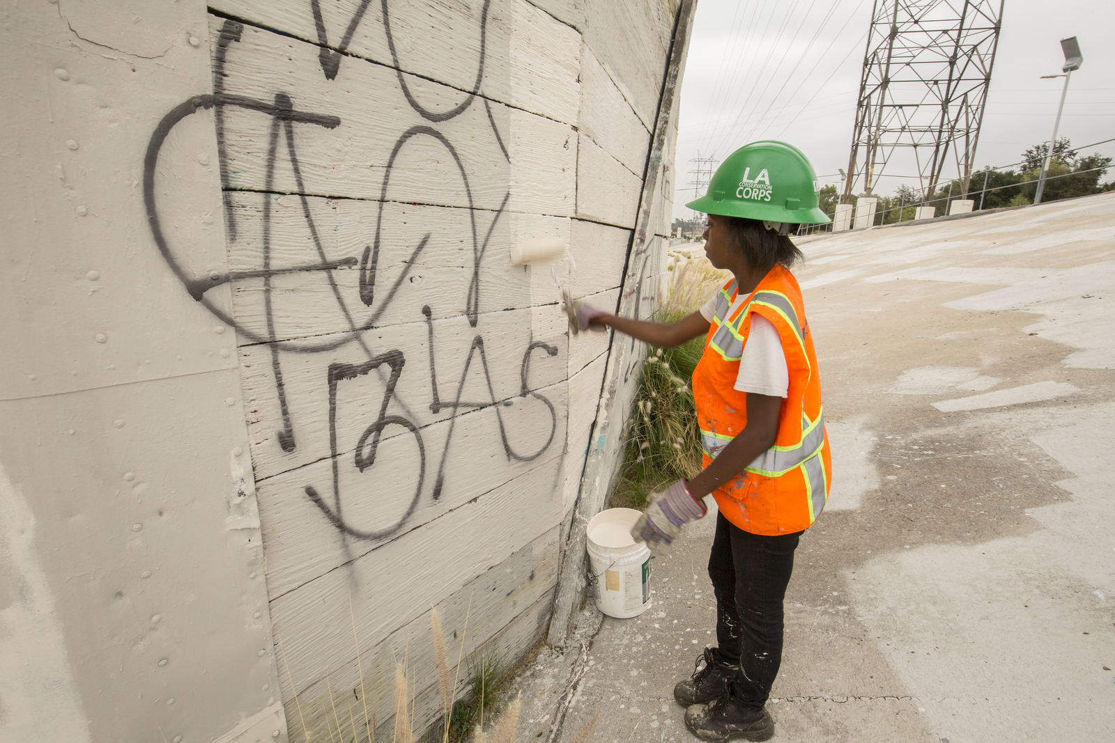 River Corps members clean up graffiti along the LA River (Ian Shive/USFWS)